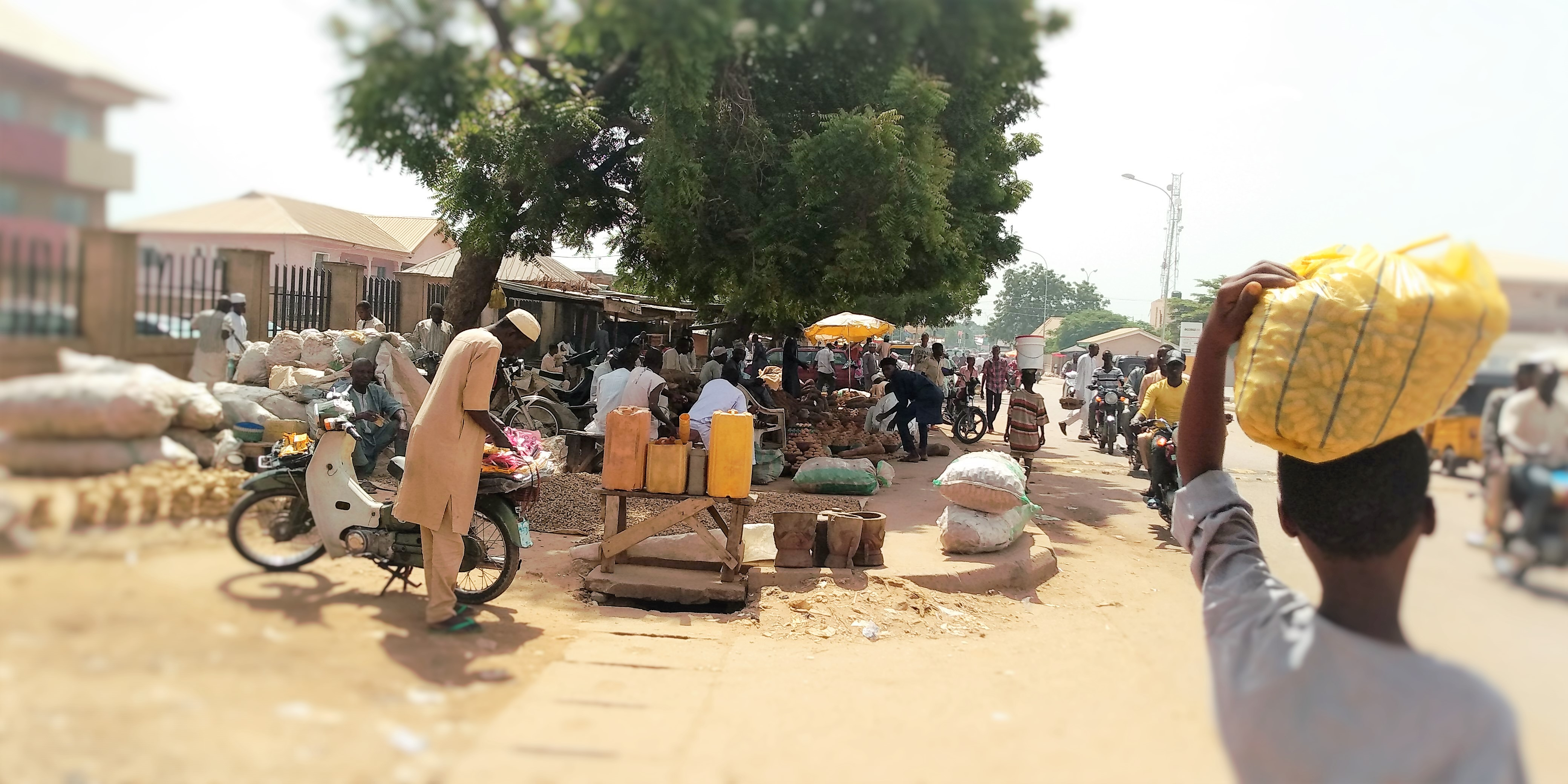 A traditional market activities in Northern NIgeria This is an image with the theme "Play" from: Nigeria